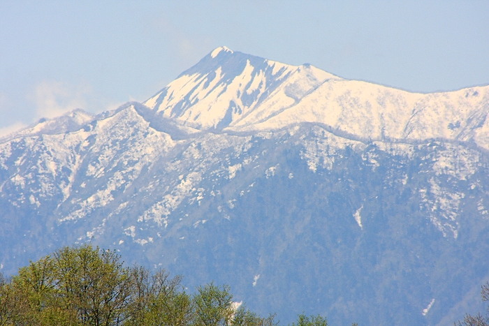 Pirikanupuri (Mount Pirika) as seen from the ENE. Shot at Kochien, Taiki Town.